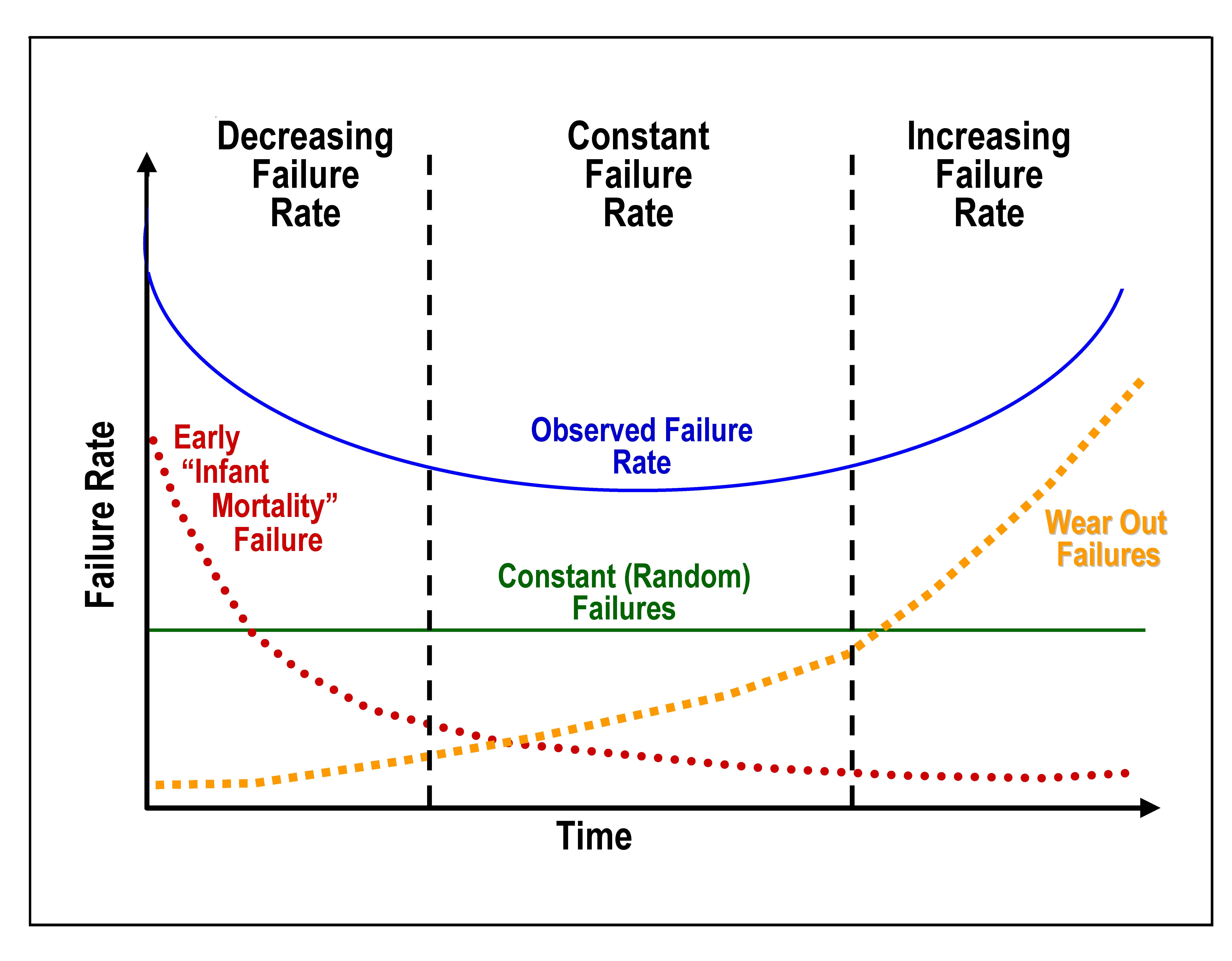 Bathtub curve